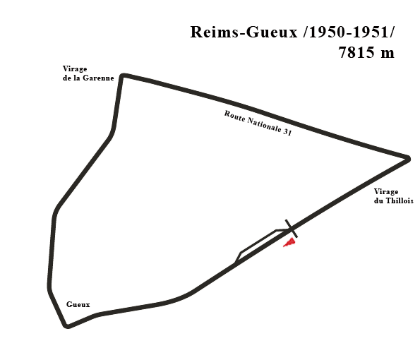 Diagram of the Reims circuit after modified in 1950, hosted the Formula One World Championship French Grand Prix from 1950 to 1951